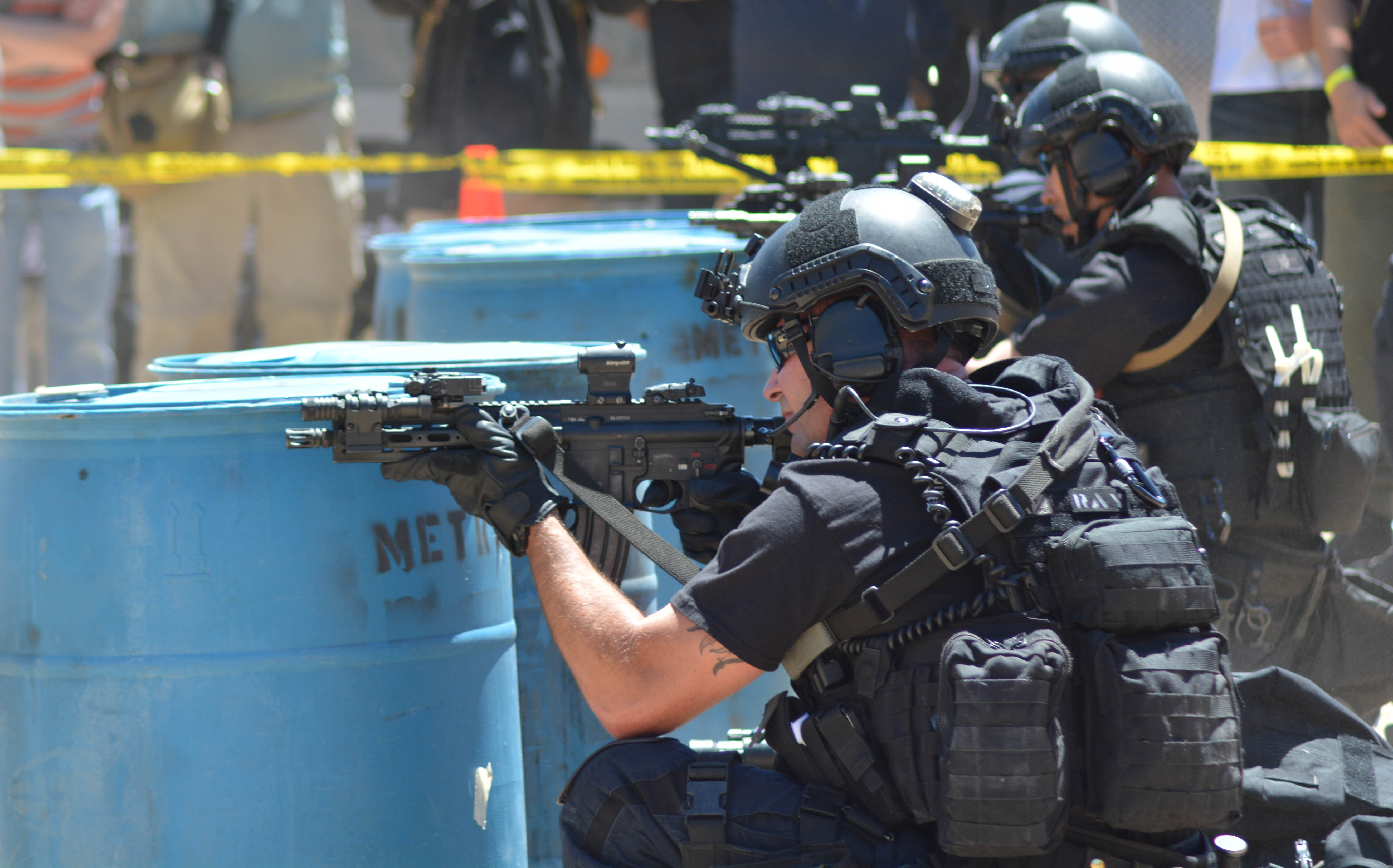 LAPD SWAT officers taking part in an exercise